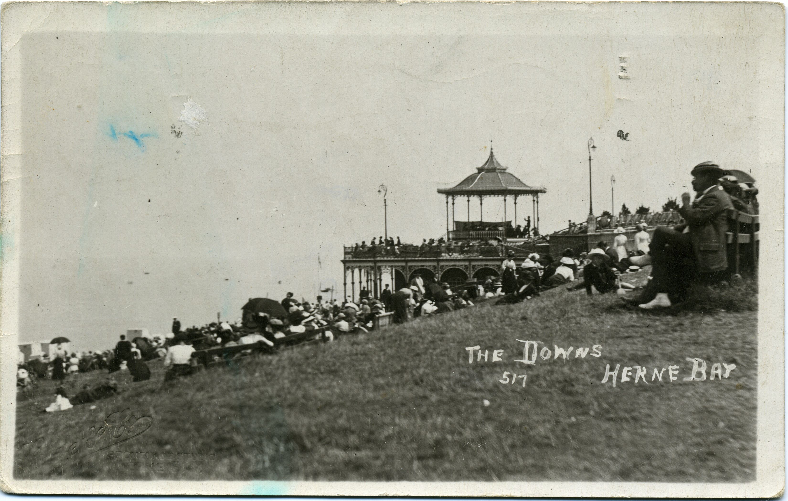 Postcard photograph of the King's Hall, Herne Bay, Kent, England. The message on the back is dated 23 August 1927; there is no stamp or postmark. The photographer's embossed name on the bottom left hand corner is (??Slade) & Co of Promenade Studio, Herne Bay.